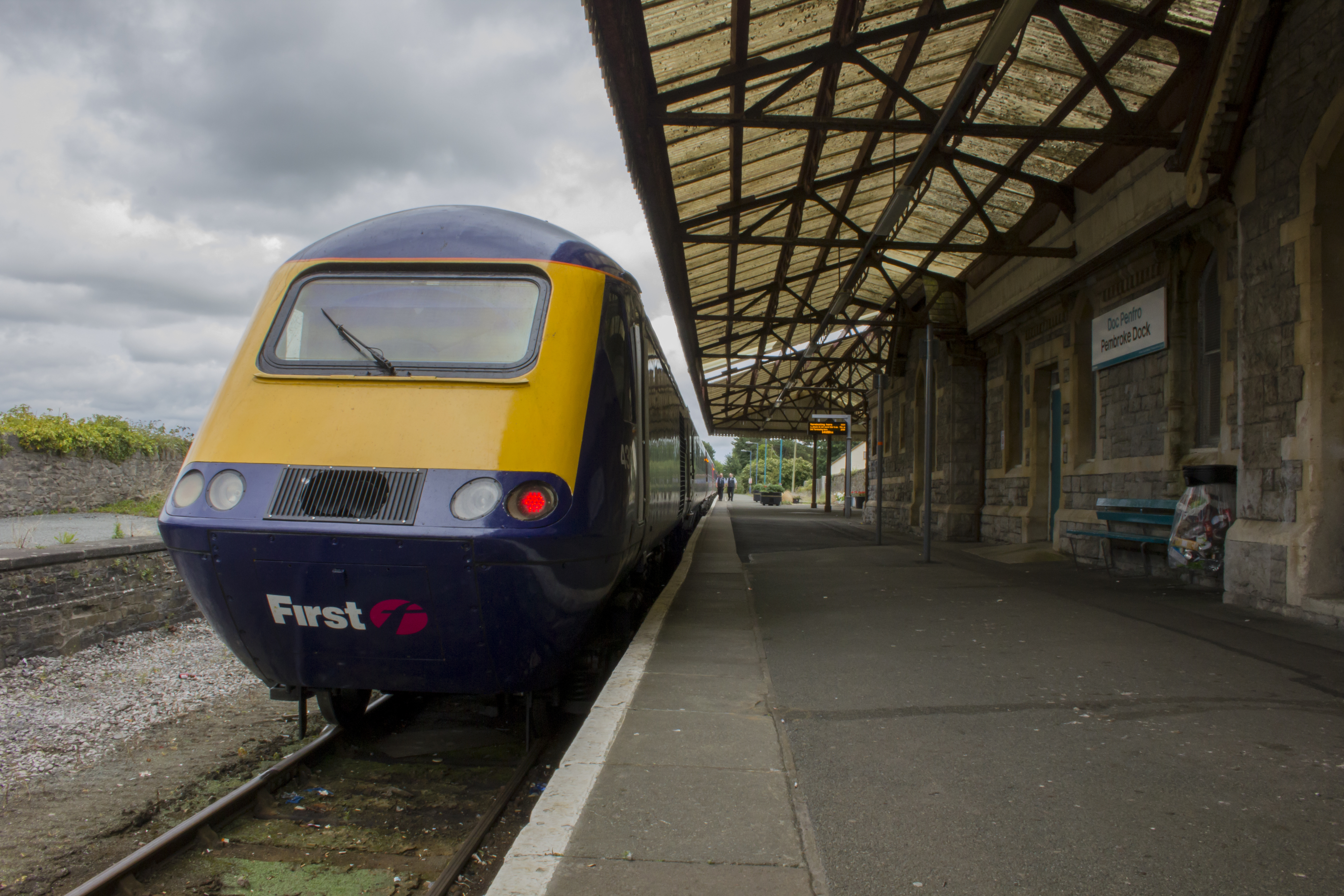 Great Western Railway's 1B15 0845 service from London Paddington stands at Pembroke Dock, shortly after arrival on Saturday 23rd July 2016. Power car 43040 is nearest the camera. The train will return to London Paddington at 1450 (1L90). Great Western Railway operate High Speed Trains (HSTs) to Pembroke Dock on Saturdays during the summer, with two services to Paddington, one from Paddington, and one service originating in Swansea.